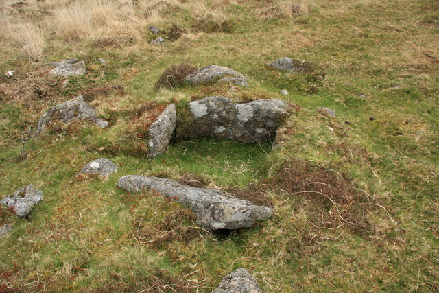 Cist on slopes of Down Tor One of three cists or kistvaens located together, overlooking Newleycombe Lake.